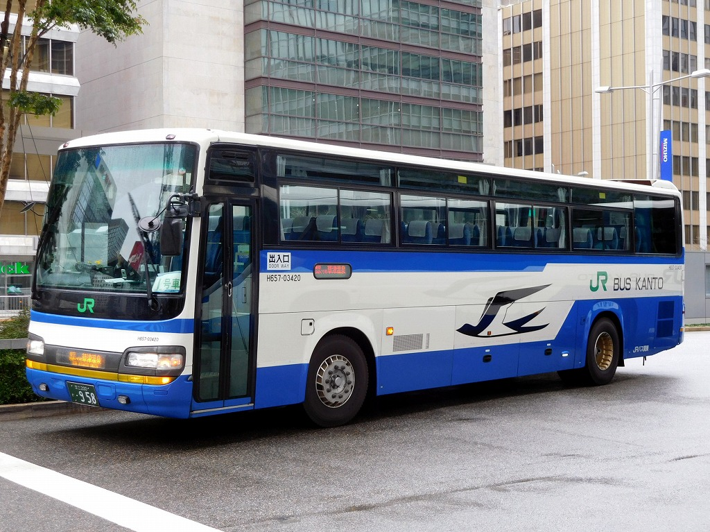 JR bus Kanto Hino S'elega R FD (KL-RU1FSEA)on highwaybus "Tokyo Yumeguri-go"(Tokyo-Kusatsuonsen)